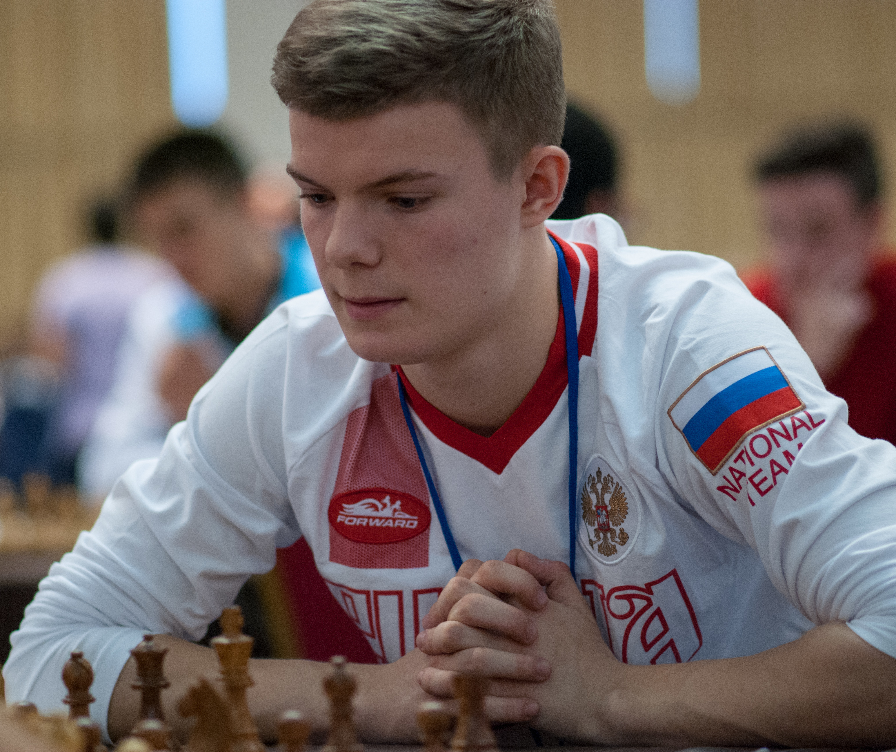 Alekseenko Kirill, FIDE World Youth Cadets Chess Championships 2015